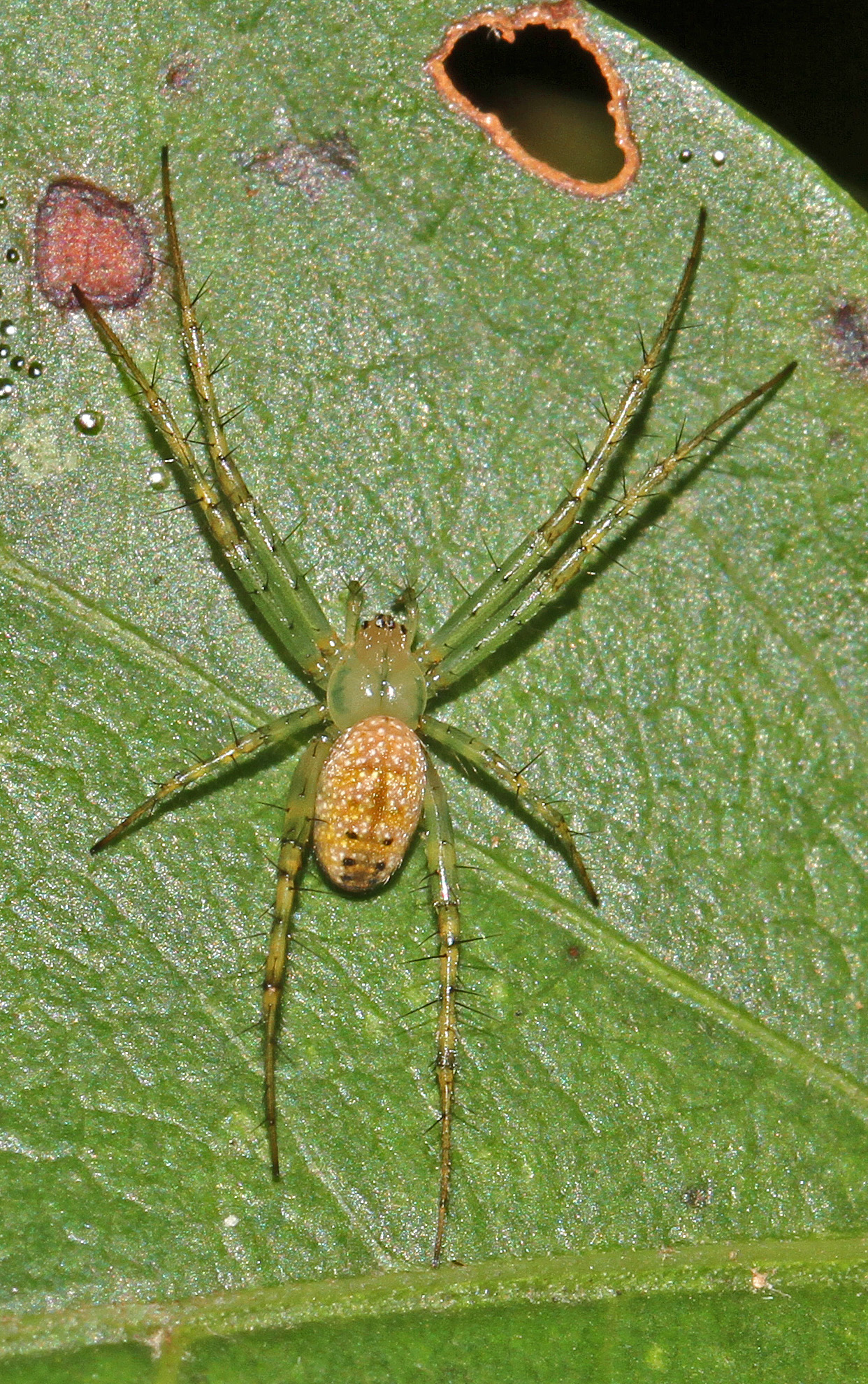 Mangora maculata, Julie Metz Wetlands, Woodbridge, Virginia